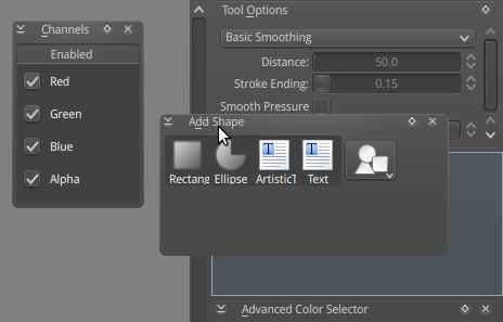 This screenshot shows how Krita's docker system works. In this screenshot, the "Channel" docker has been detached from the right panel and becomes a floating docker. The "Add Shape" docker is being docked into the right panel, the grey-bluish area between the "Tool Options" docker and "Advanced Color Selector" docker is where it is going to be docked.